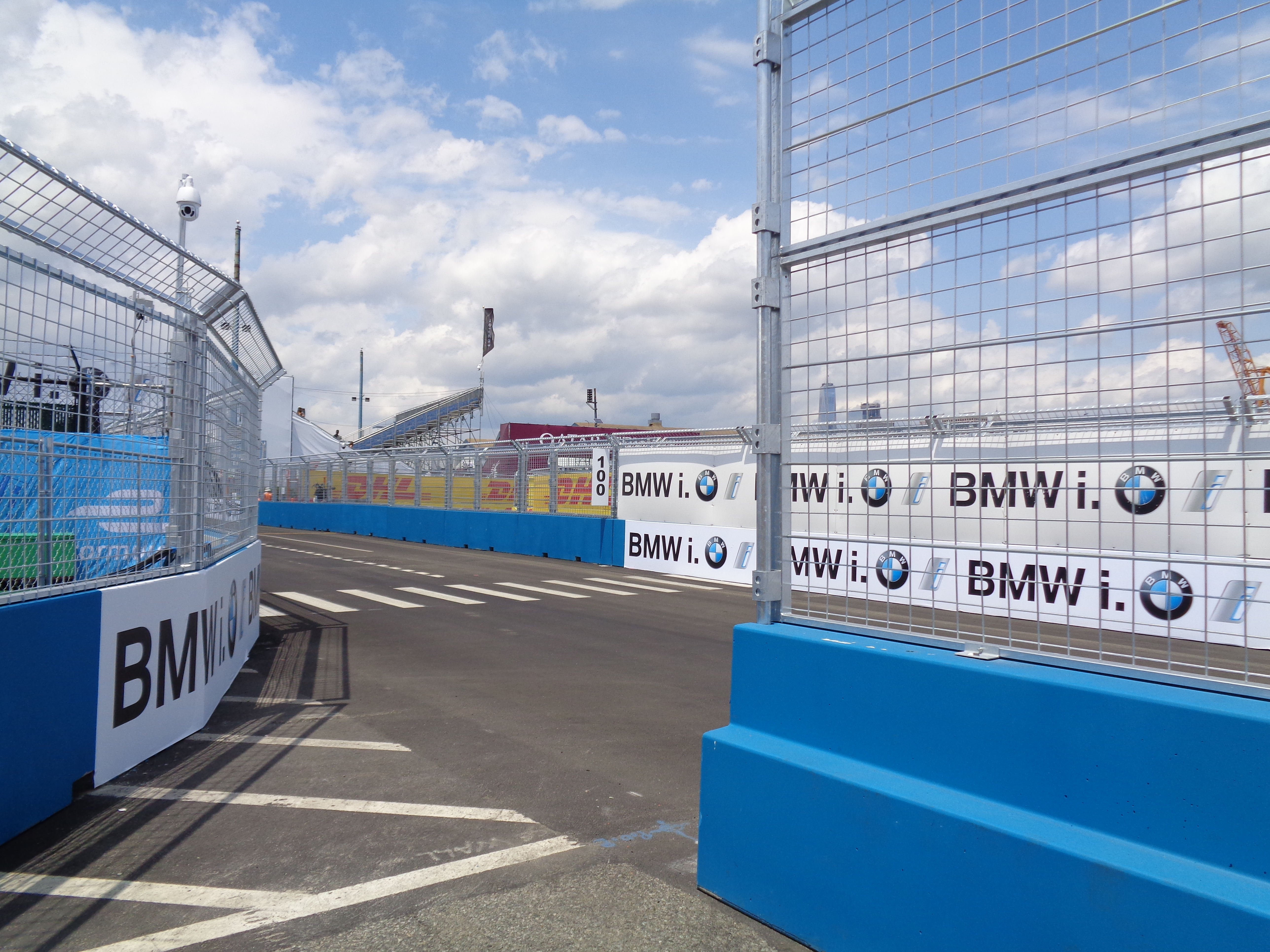 The first race of the 2017 New York City ePrix in Red Hook, Brooklyn, on Saturday, July 15, 2017.